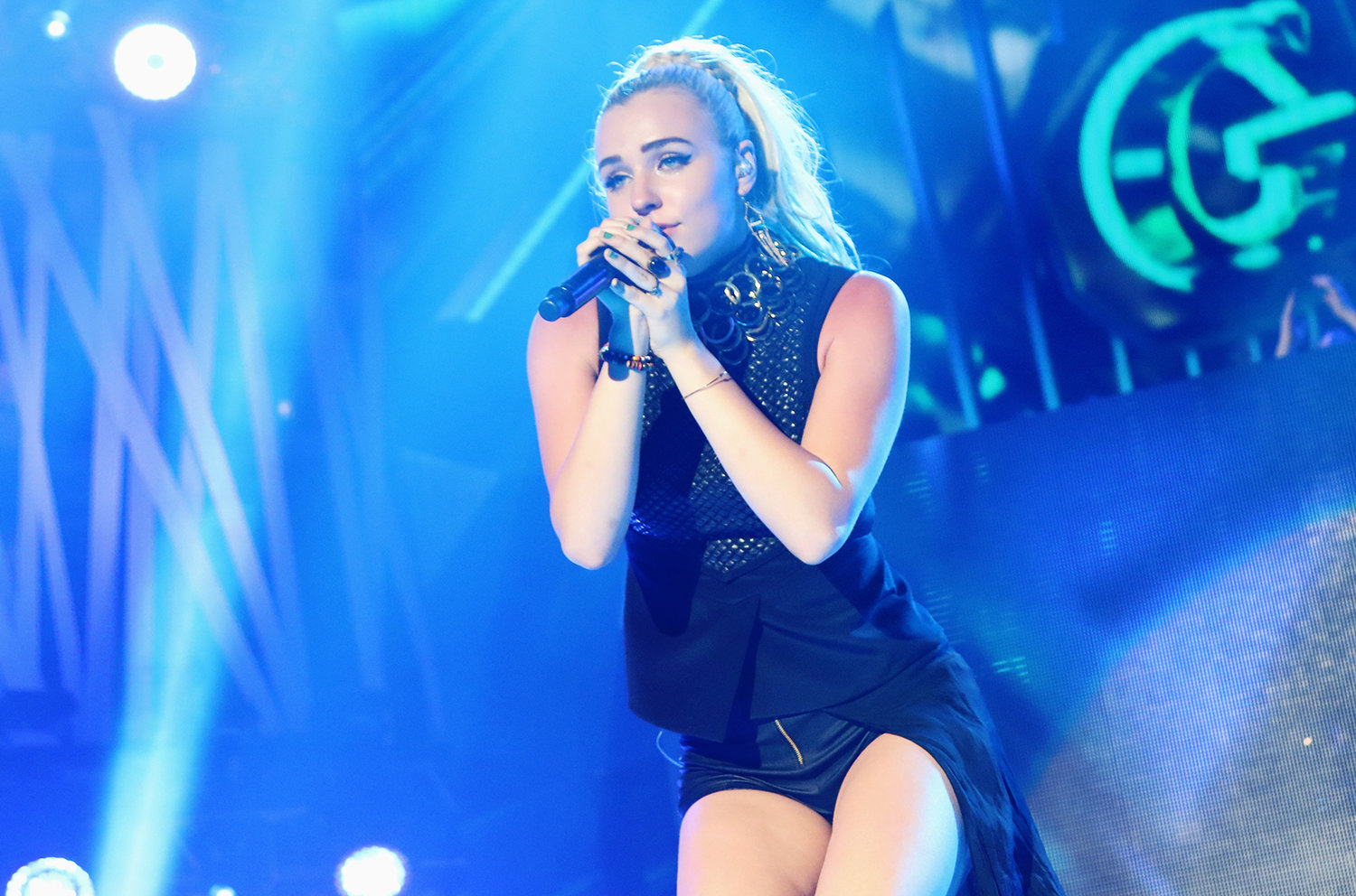 Maty Noyes performs on stage during 2016 iHeartRadio Summer Pool Party at Fountainbleau Miami Beach on May 21, 2016 in Miami Beach, Fla.